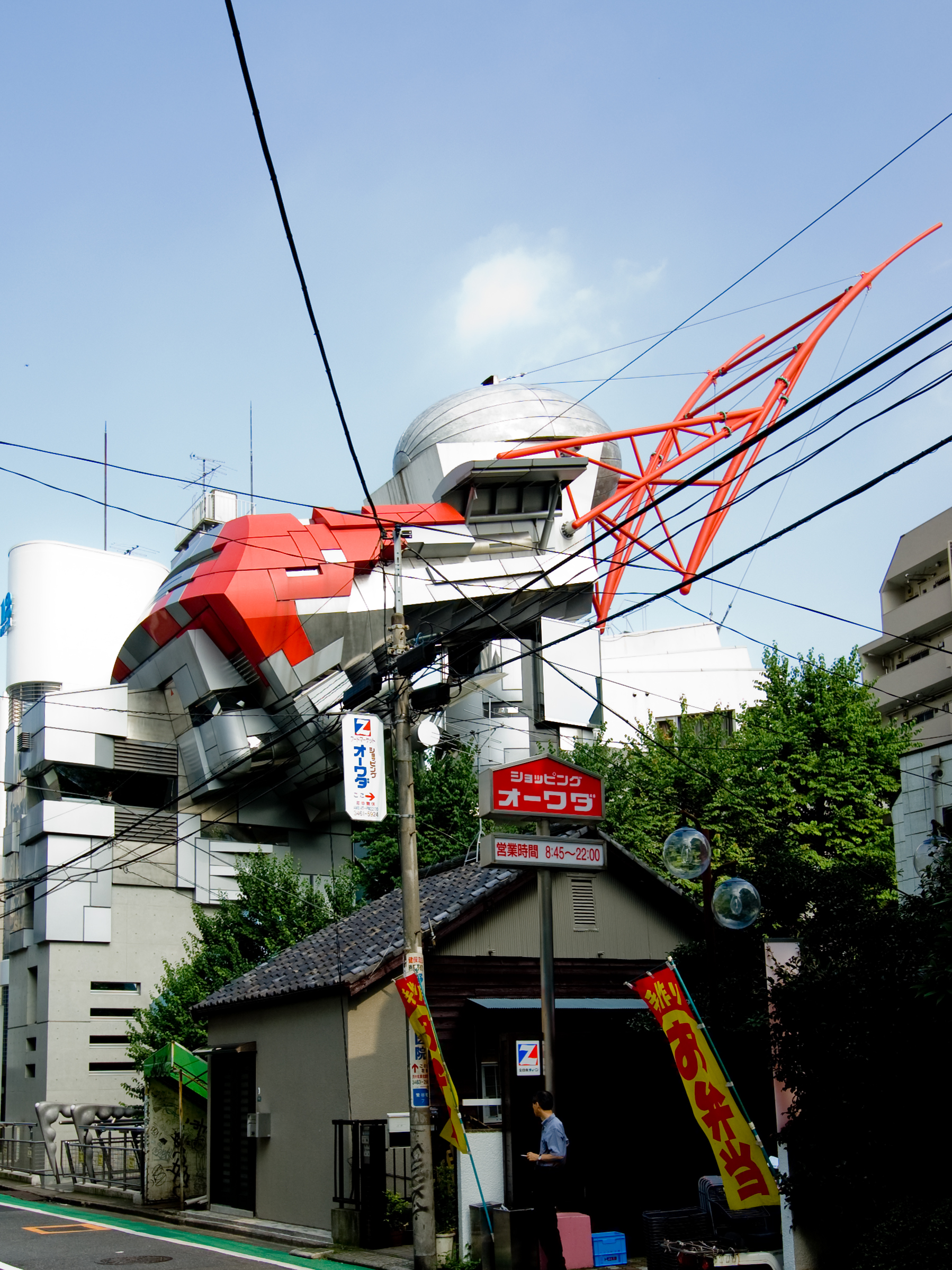 Aoyama Technical College, Shibuya Tokyo Japan, design by Makoto Watanabe in 1990